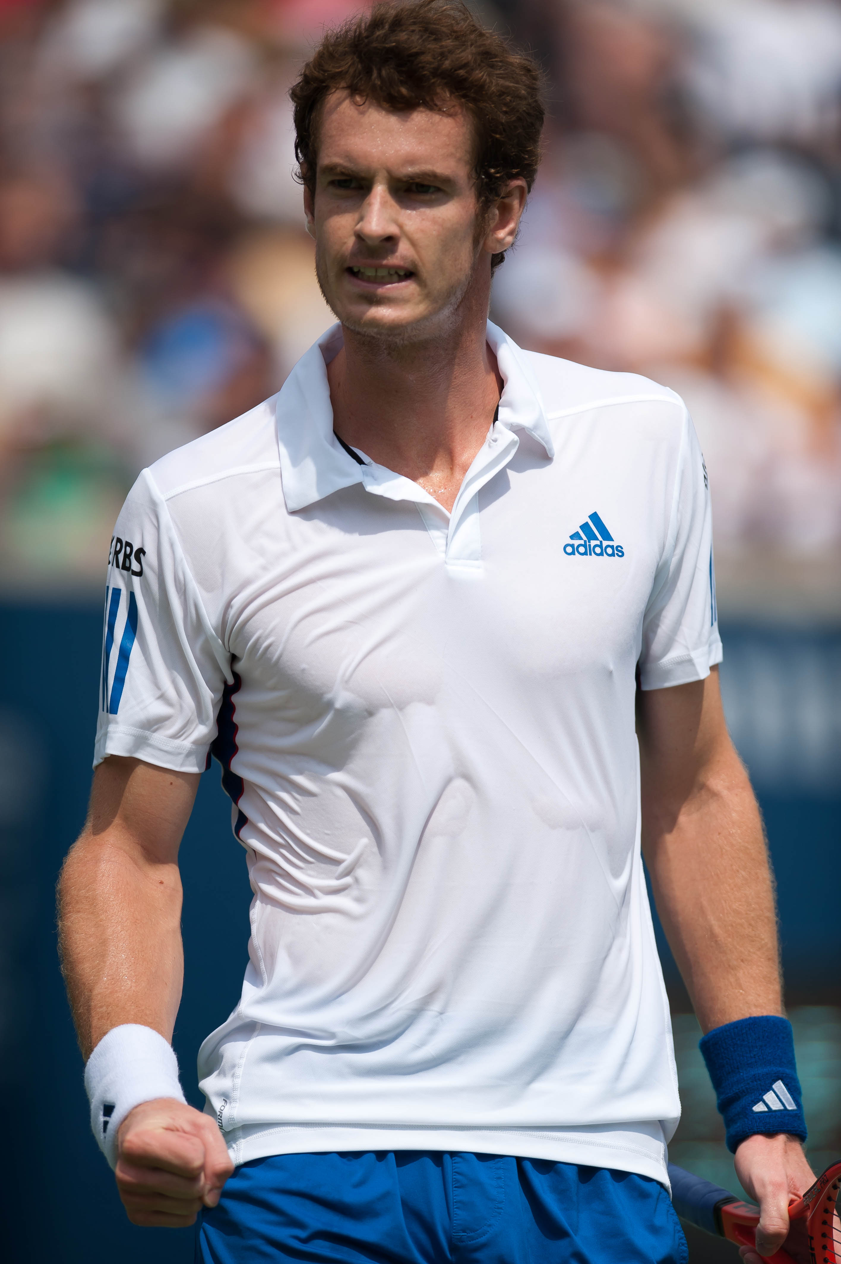 Andy Murray during the 2010 Rogers Cup final